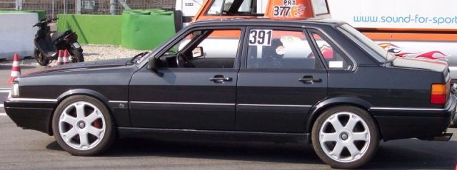 Audi 90